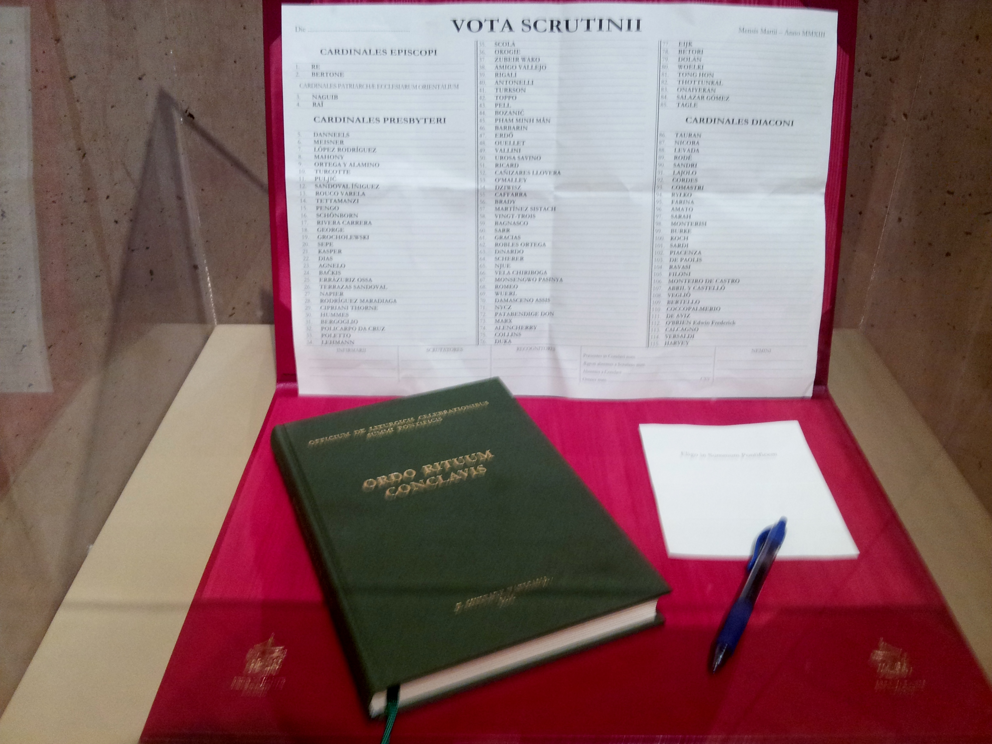 Card. Roger Mahony's scrutiny ballot, conclave procedural handbook, ballot card and blue Pilot G-2 pen used at the 2013 Papal Conclave.